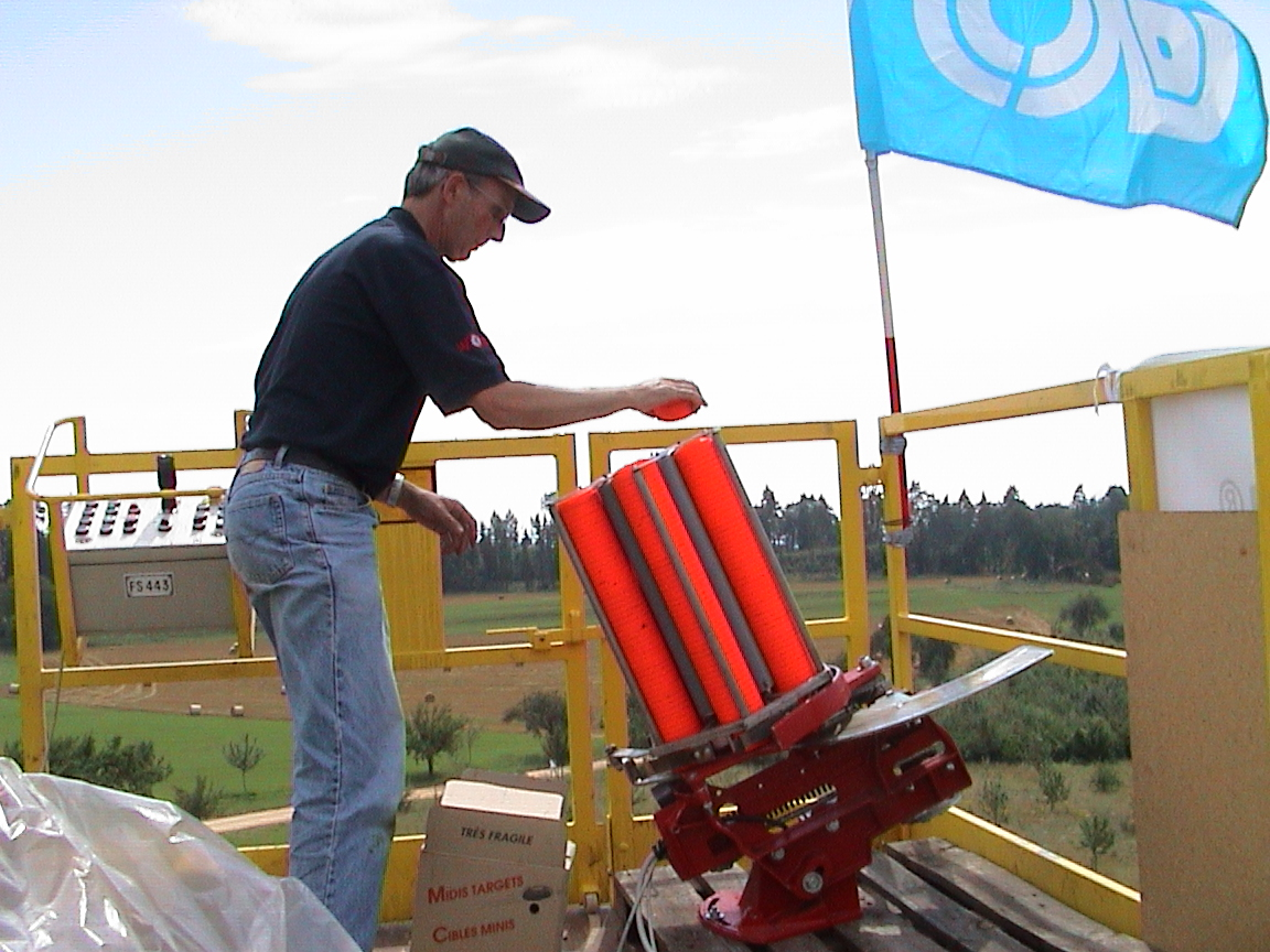 A Clay-throwing Machine or Trap at the Sporting World Championships 2002 at Dornsberg, Baden-Württemberg, Germany.